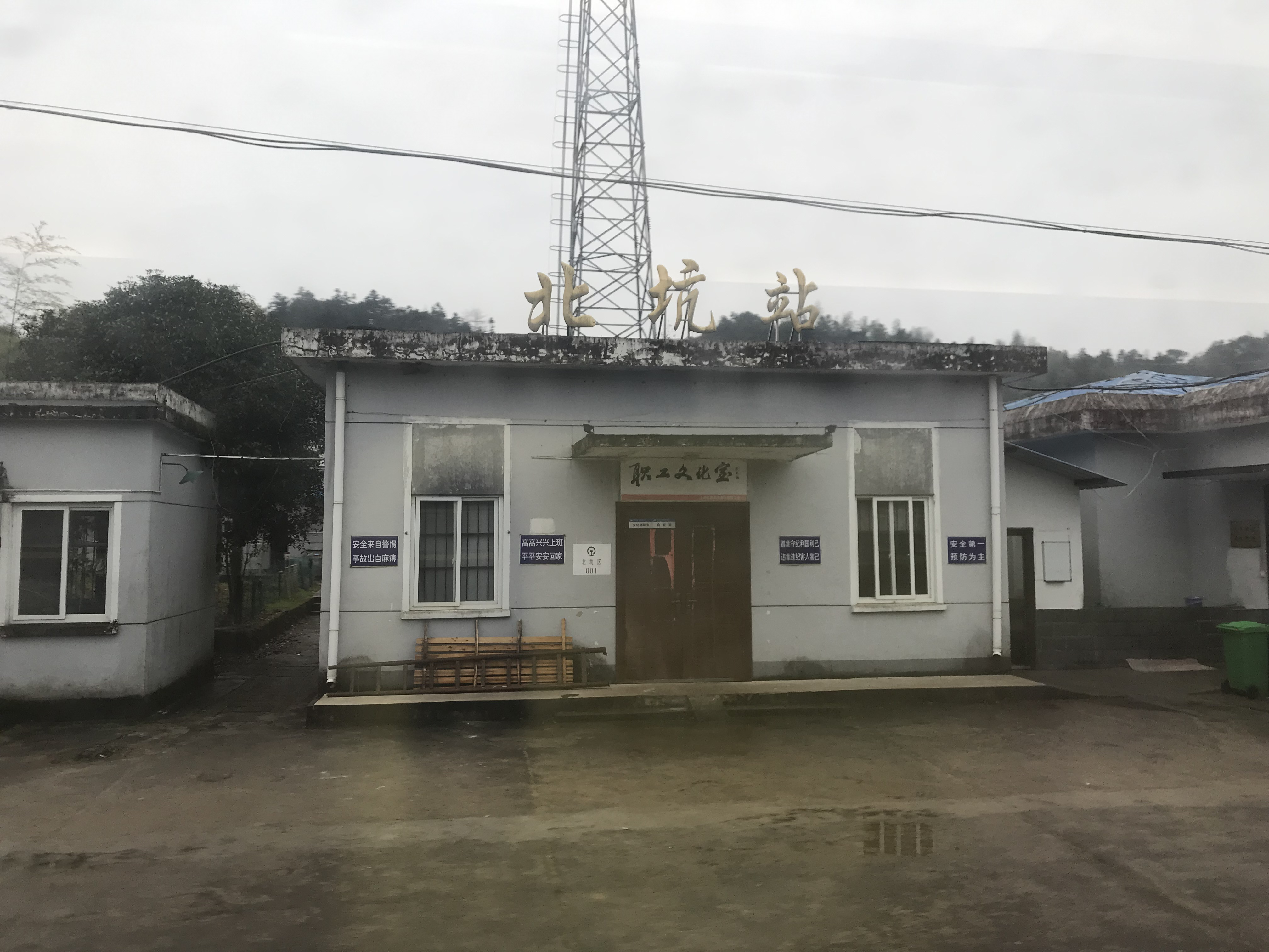 201901 Station Building of Beikeng